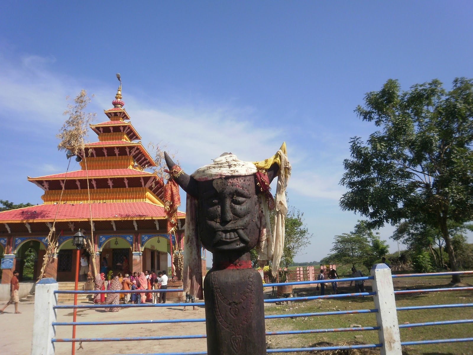 Picture of Kankalini Temple